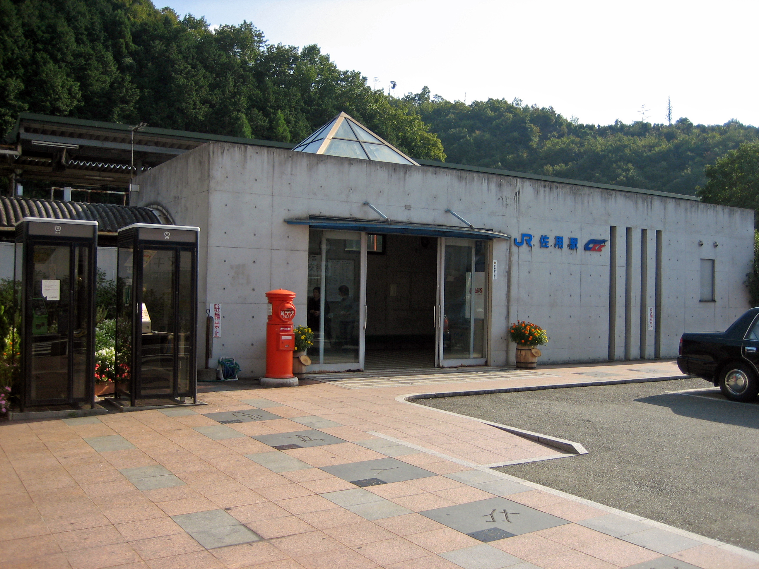 Sayo Station entrance.